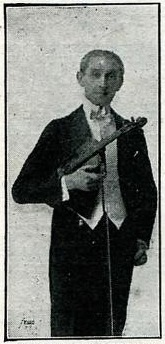 Joseph Samuels (possibly died around 1953), US musician, bandleader and recording artist.